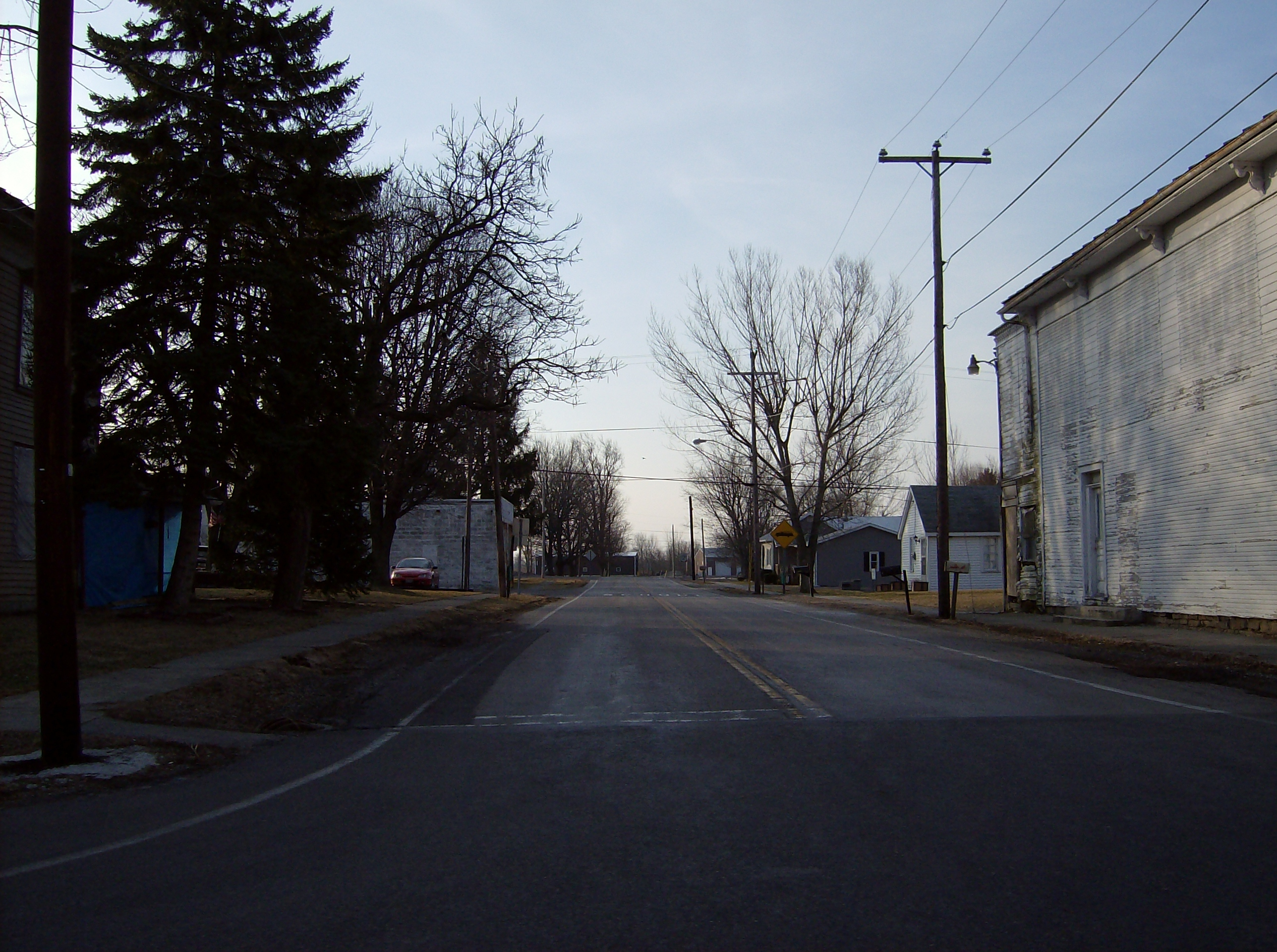 View along Ohio State Route 37 at Marseilles, Ohio, United States. Picture taken from Ohio State Route 67.